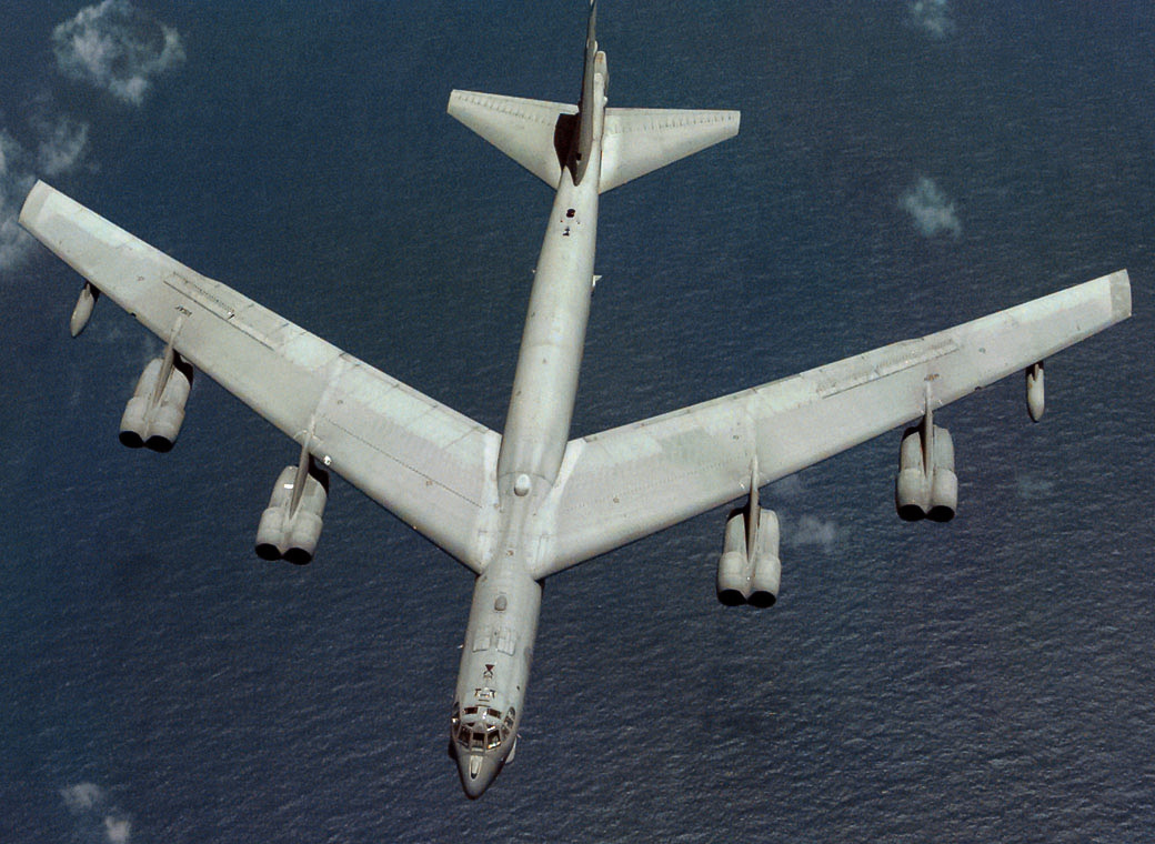 The high aspect ratio wing of a United States Air Force B-52 bomber. DIEGO GARCIA, British Indian Island Territory -- A B-52H Stratofortress from the 96th Bomb Squadron, Barksdale Air Force Base, La., deployed to the 2nd Air Expeditionary Group, Naval Station Diego Garcia, drops away after air refueling.